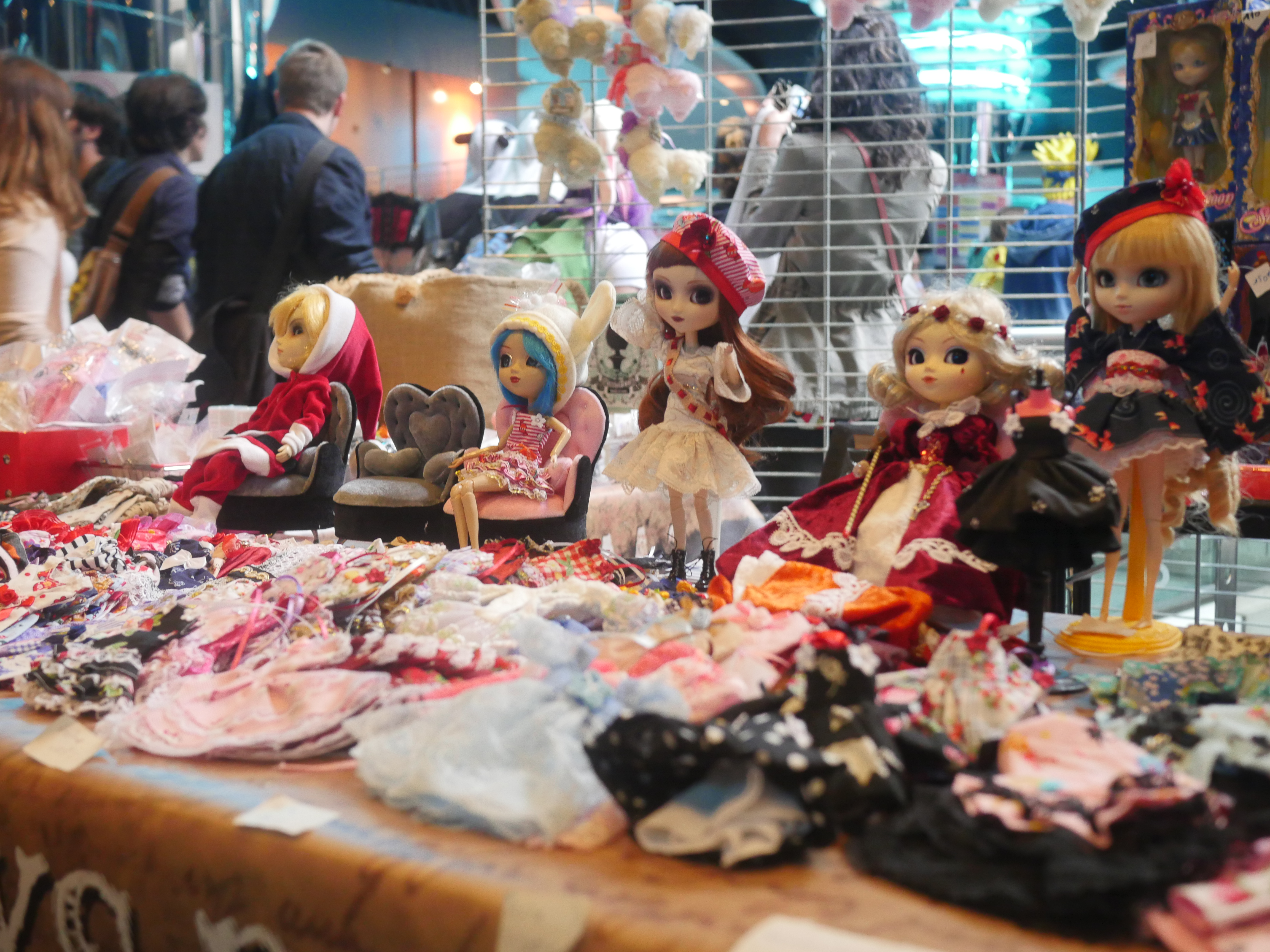 photograph taken at the 2015 edition of the Mang'Azur festival of Toulon.